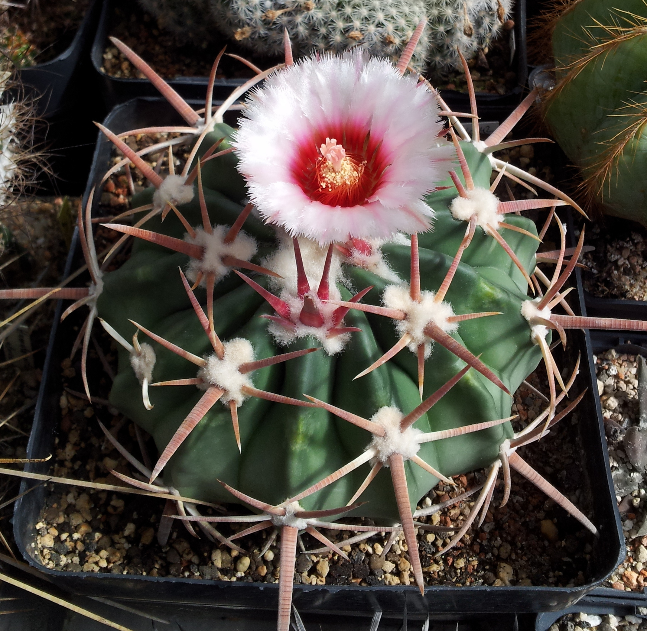 Echinocactus texensis (syn. Homalocephala texensis)